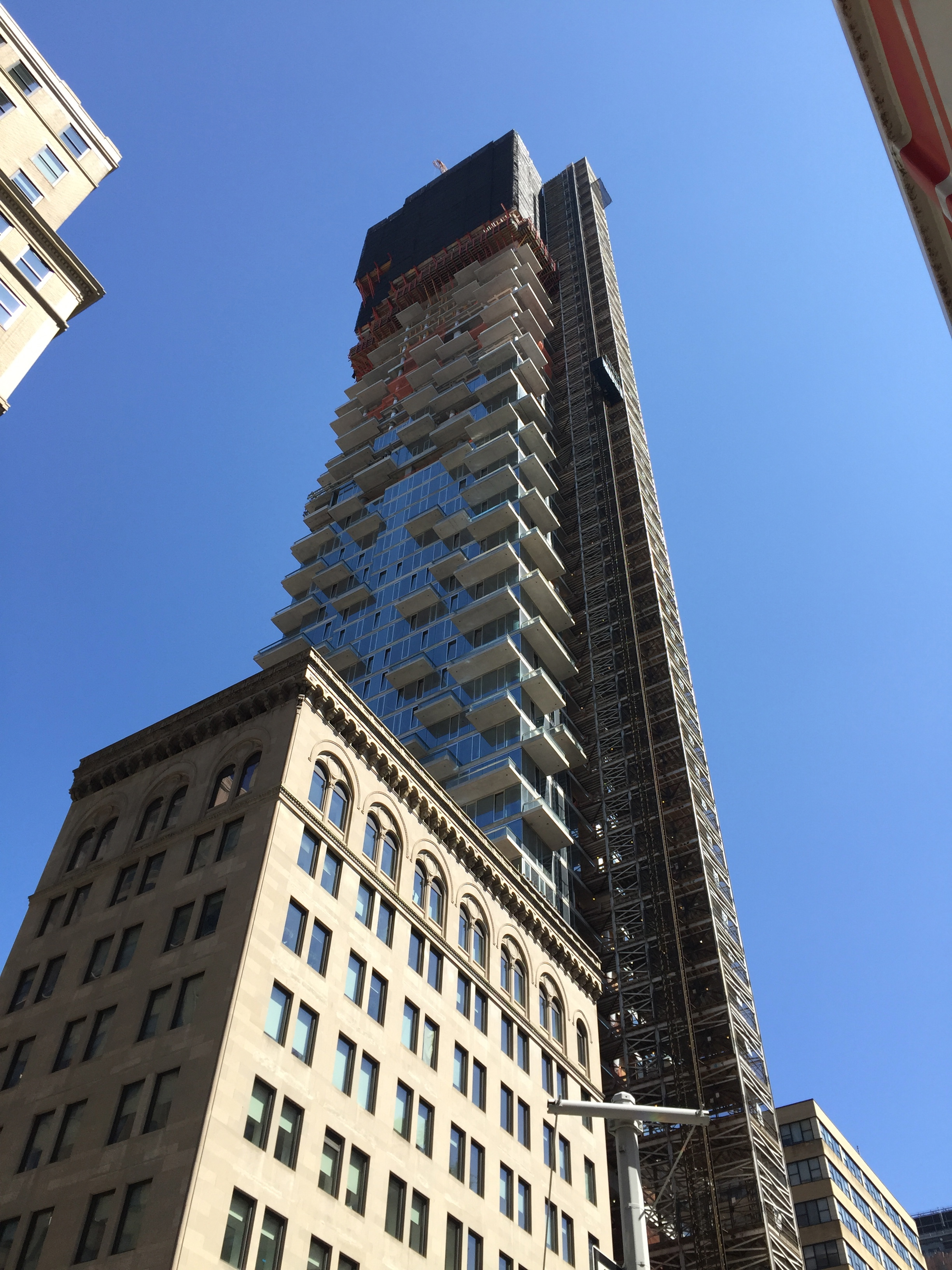 56 Leonard Street is a residential high-rise in Tribeca, Lower Manhattan, New York City, New York. Photographed while under construction on June 10, 2015 by Quercus montana